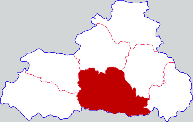 Location of Shanyang county in Shangluo city, China